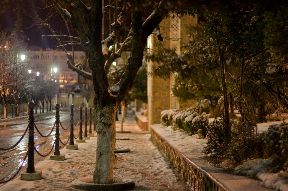 Rue M'sallah a Medea sous la neige